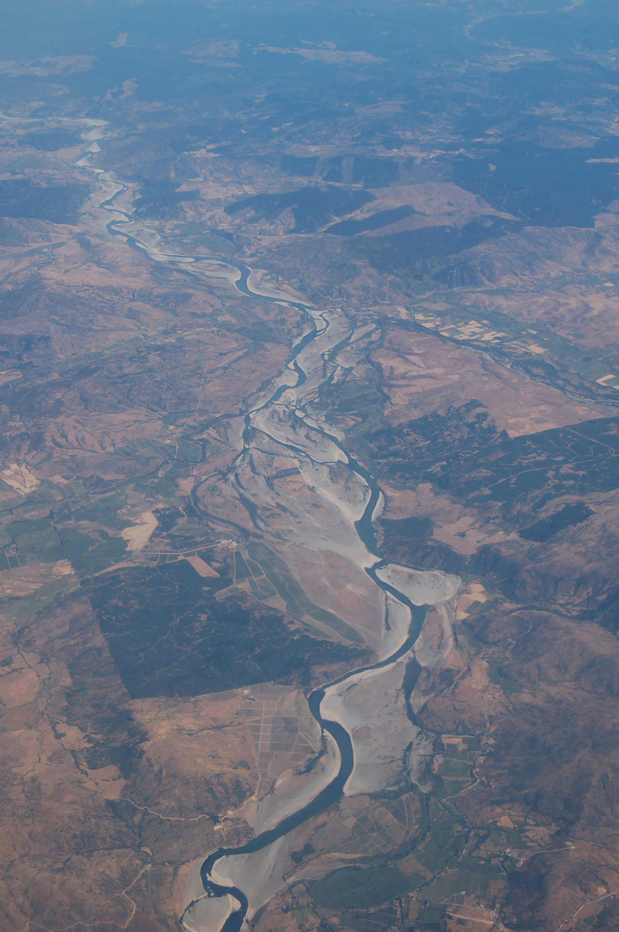 aerial photograph of Río Maule and Río Claro